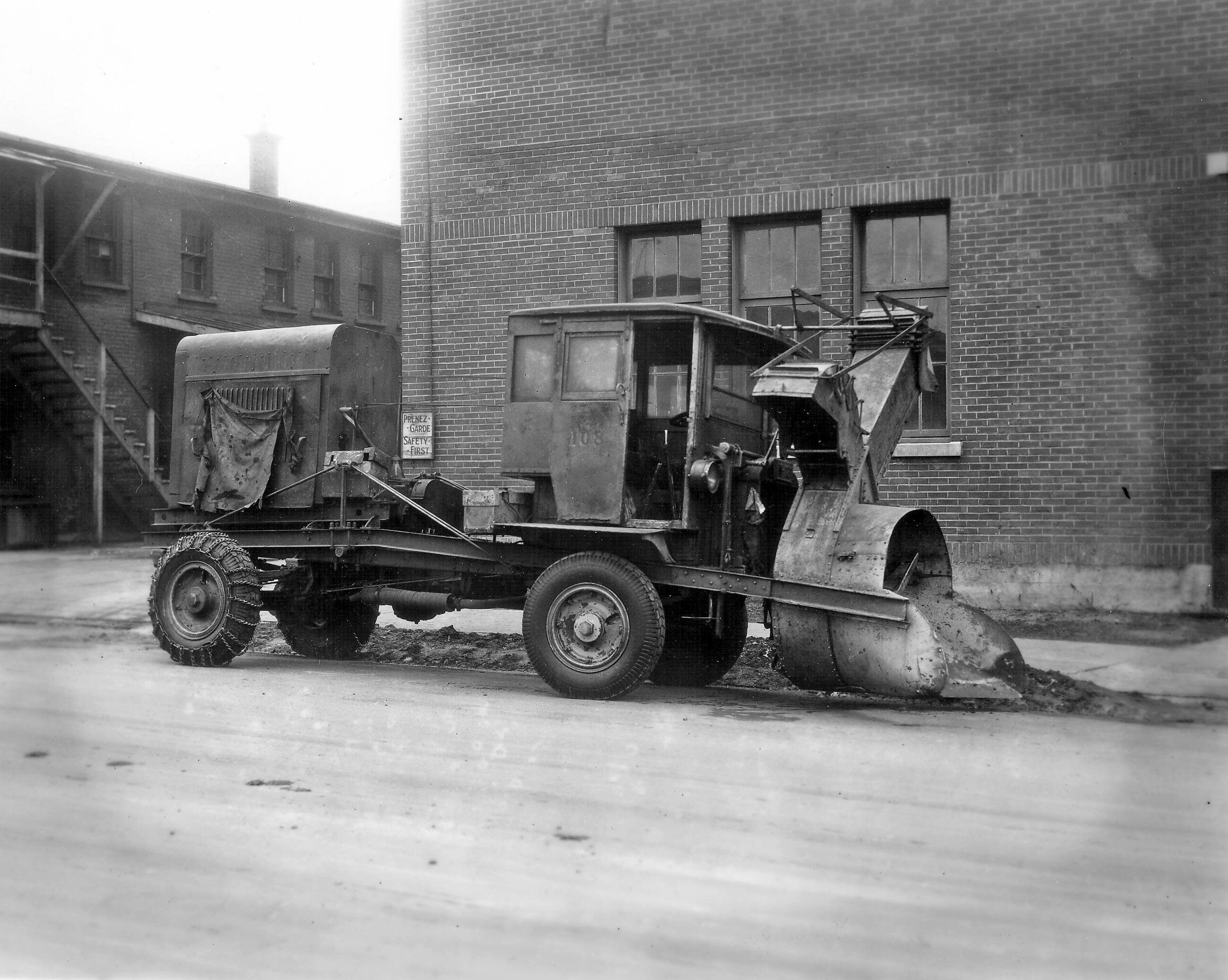 The First Snowblower - "Sicard Snow Remover Snowblower" « The invention consisted of three sections; a four-wheel drive truck chassis and truck motor, the snow scooping section, and the snow blower with two adjustable chutes and separate motor. The snowblower allowed the driver to clear and throw snow over 90 feet away from the truck or directly into the back of the truck and it worked on hard, soft or packed snow. »